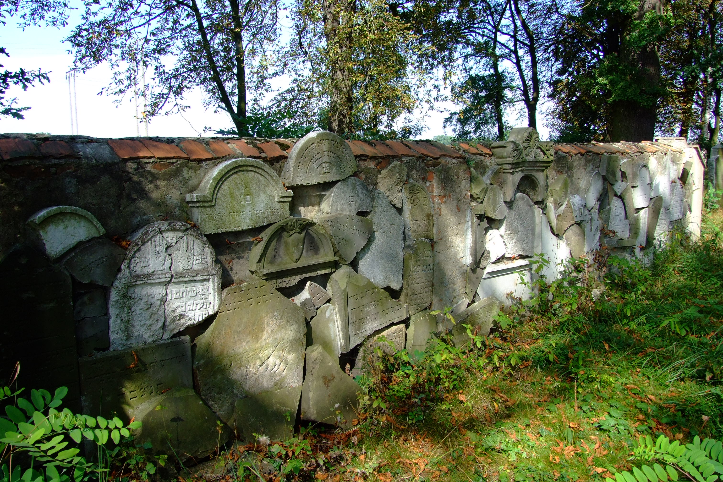 Jewish cemetery in Dobrodzień/Poland